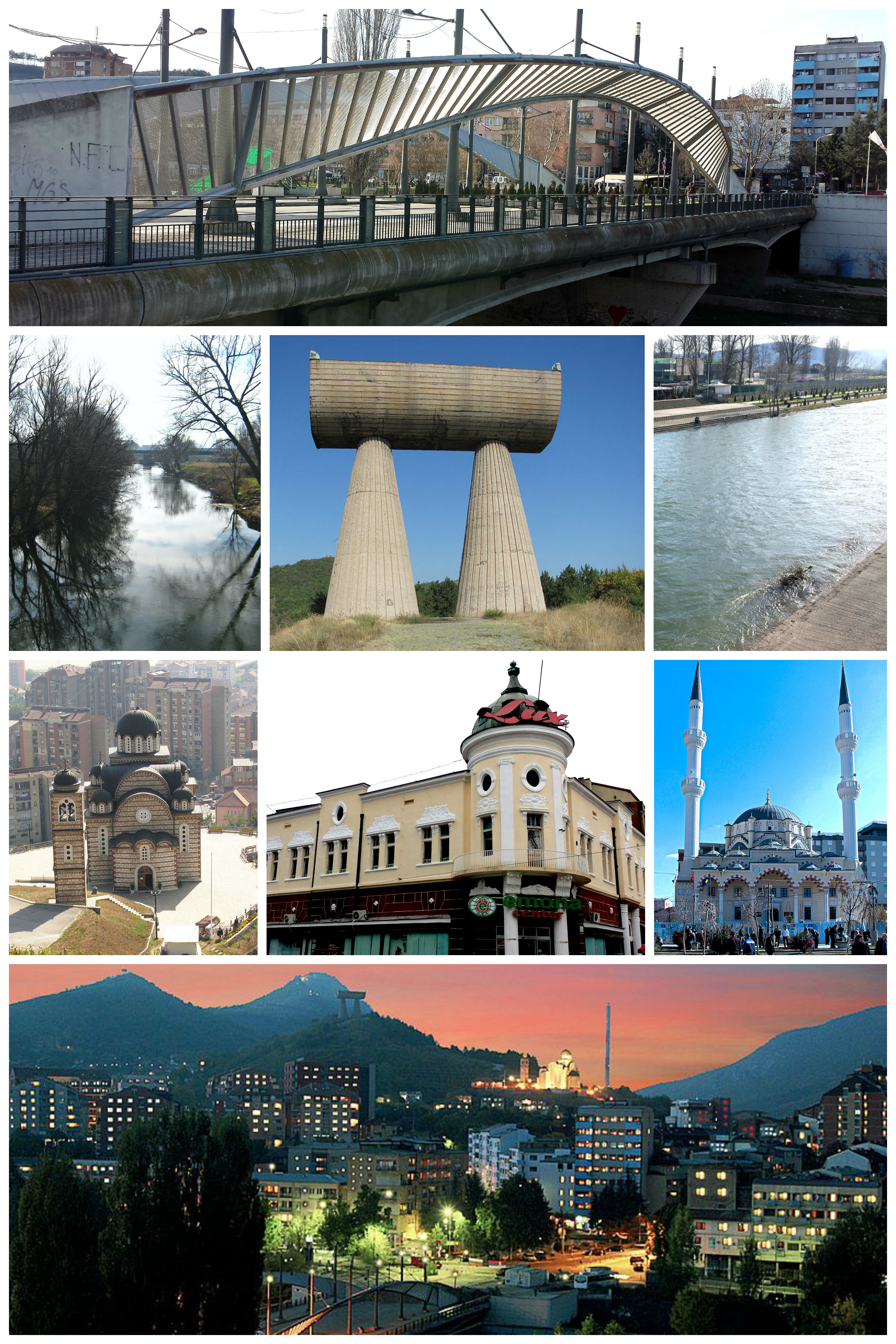 Collage of the city of Mitrovica